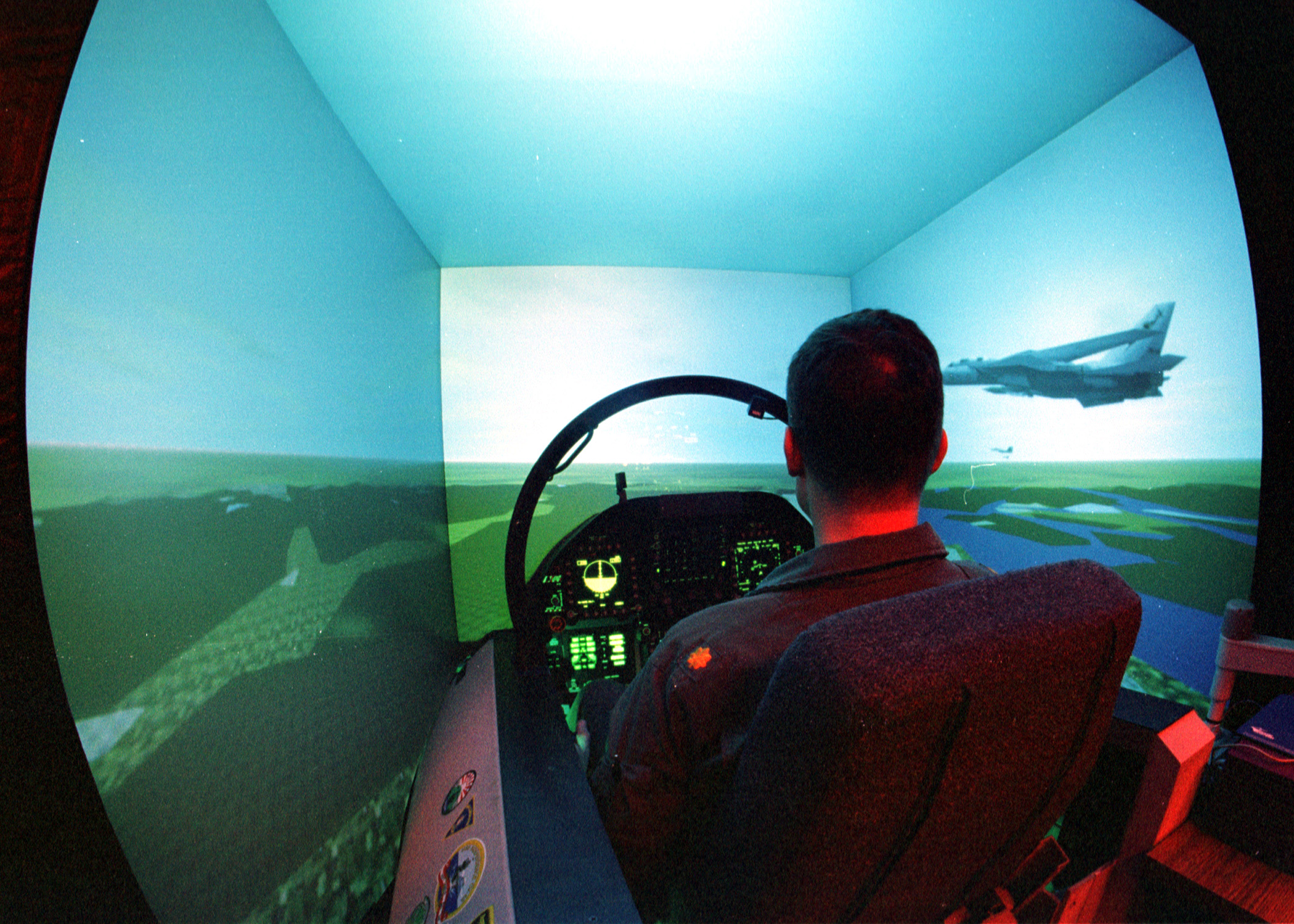 980310-N-7355H-003 ABOARD USS INDEPENDENCE (Mar. 10, 1998) -- Lt. Cdr. Bryan Kust from Pennington, NJ sits in a F/A-18 “Hornet” flight simulator aboard the aircraft carrier USS Independence (CV 62). Independence is forward deployed to the Persian Gulf in support of Operation Southern Watch. U.S. Navy photo by Photographer's Mates Airman Chris Howell. (RELEASED)